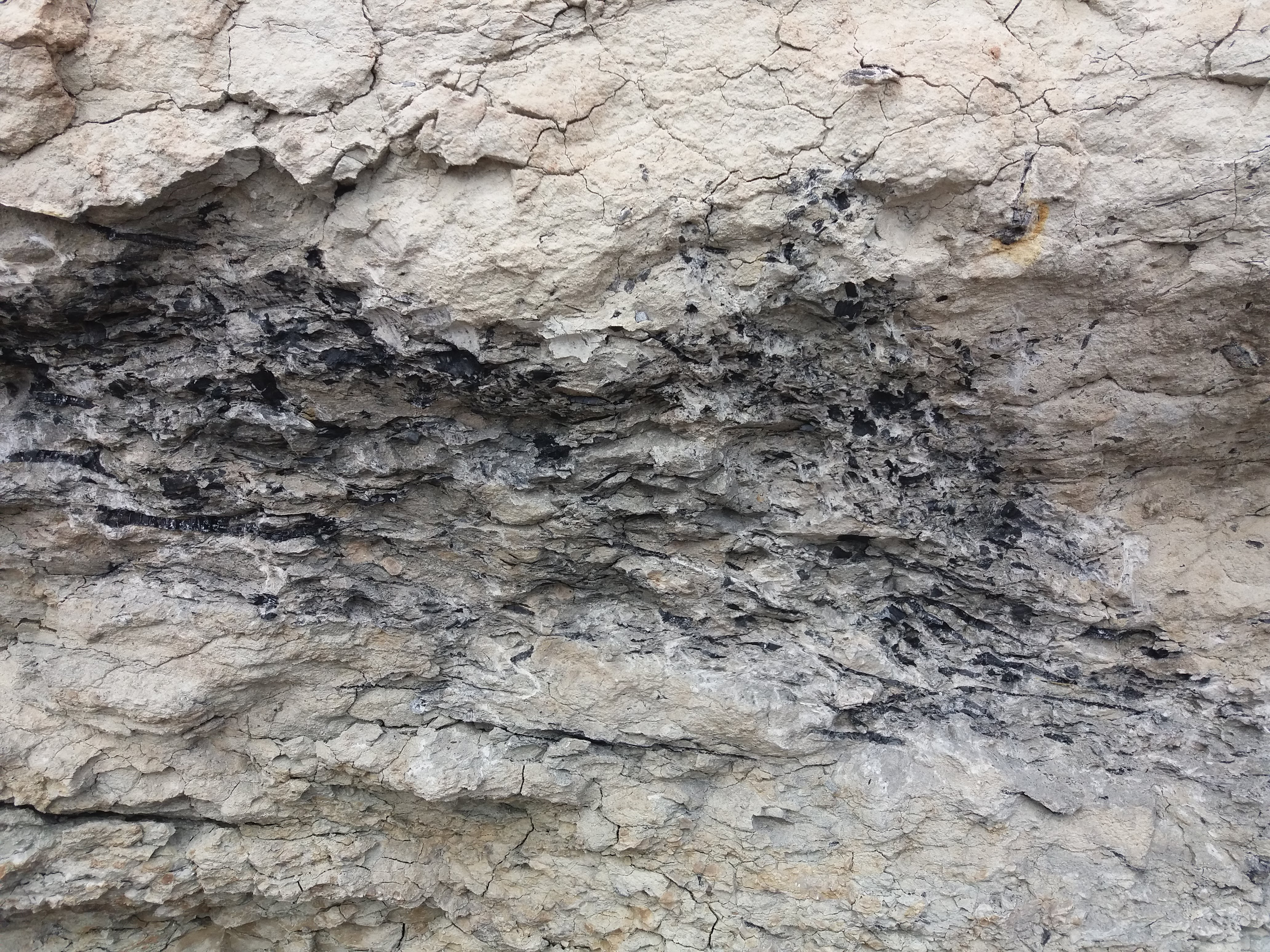 Close up exposure of the L6 plant debris bed near Chilton Chine, Isle of Wight, showing suspended Charcoalised plant matter in mudstone matrix